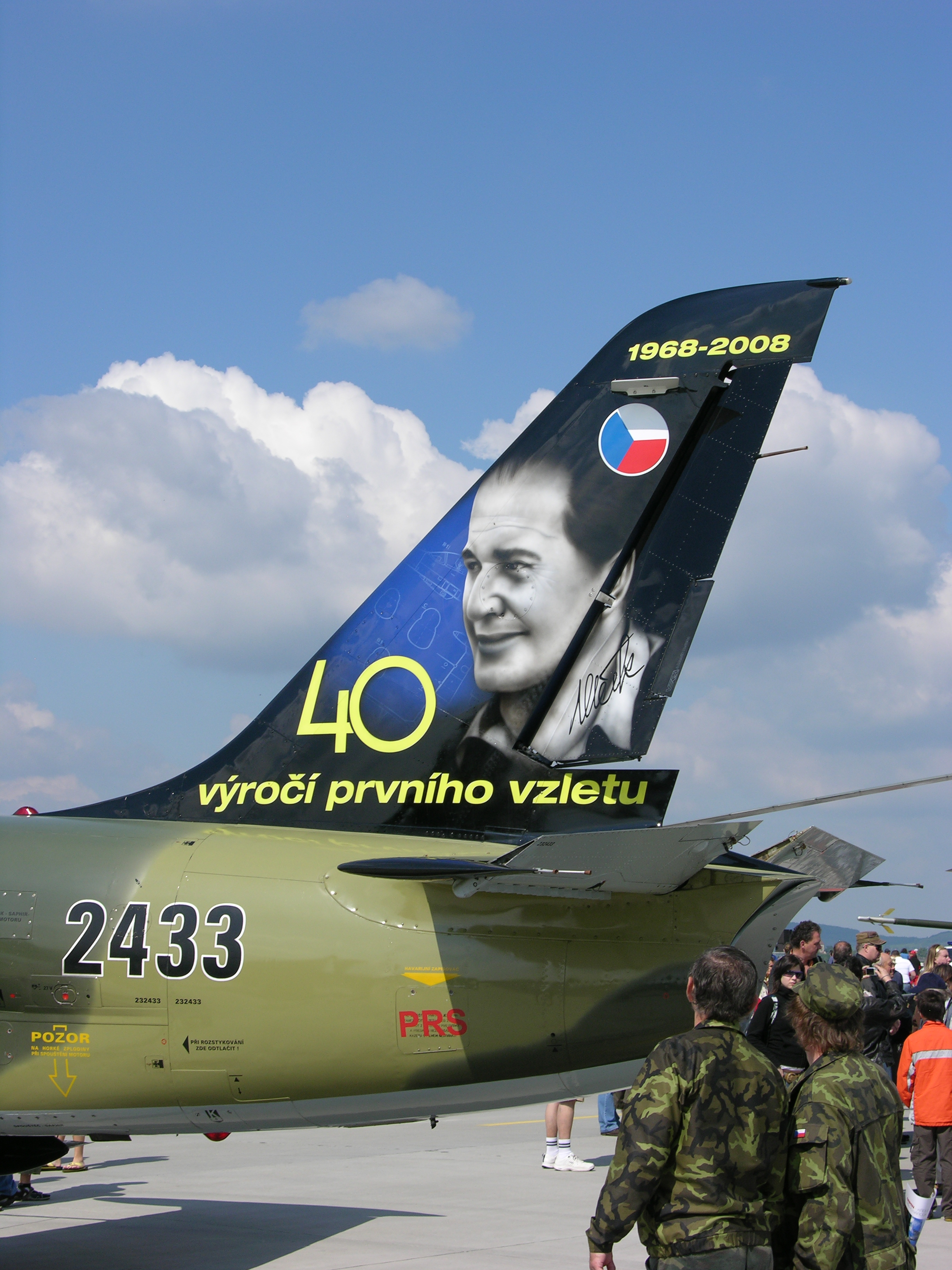 This side of the tail bears a portrait of the chief designer of the L-39, Ing. Jana Vlčka, which has been in service for 40 years now. On the other side there is a picture of an Albatross, after which the aircraft is named of course.